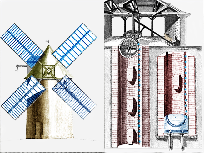 Machine of Marly. Windmill with jars. Pond of Clagny.